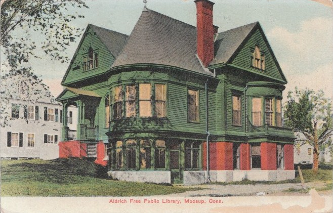 Postcard picture of Aldrich Free Library in the Moosup section of Plainfield, Connecticut; mailed in January 1908